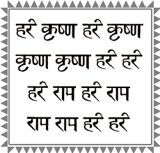 see above